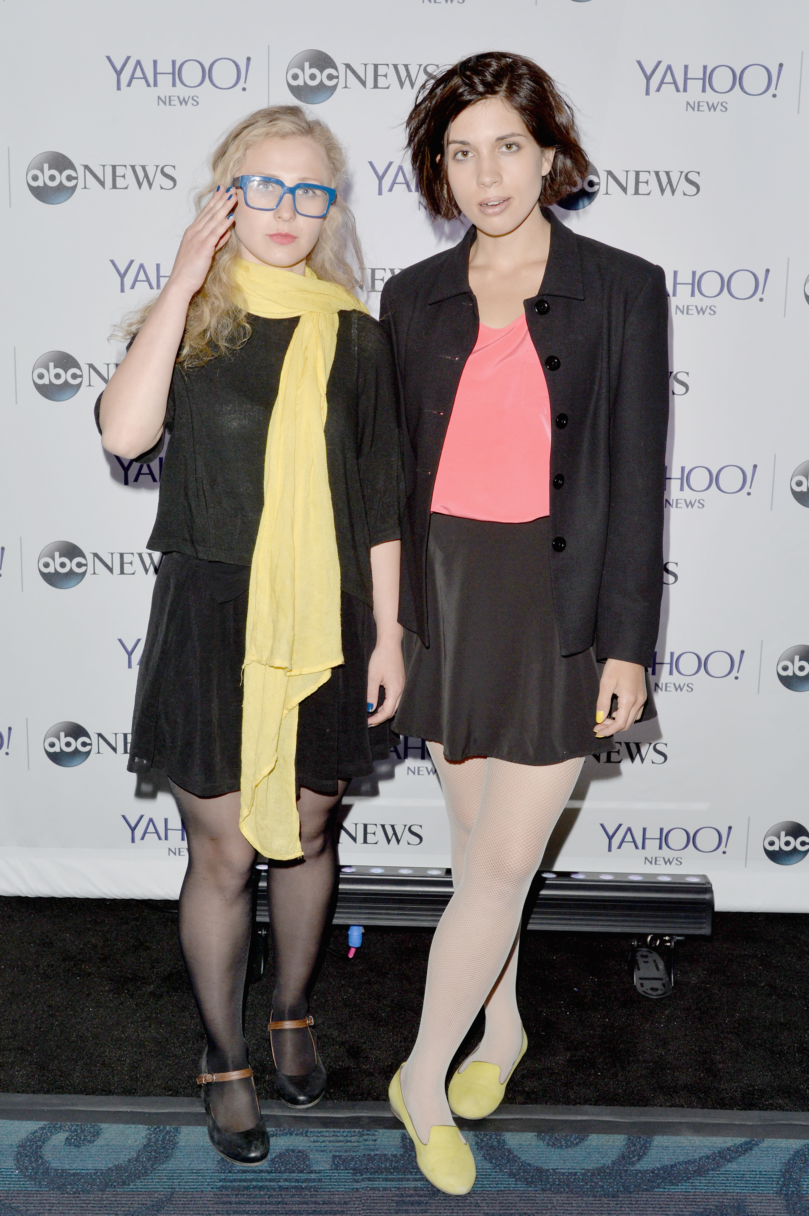 WASHINGTON, DC - MAY 03: Maria Alyokhina (L) and Nadezhda Tolokonnikova of Pussy Riot attend the Yahoo News/ABCNews Pre-White House Correspondents' dinner reception pre-party at Washington Hilton on May 3, 2014 in Washington, DC. (Photo by Andrew H. Walker/Getty Images for Yahoo News)